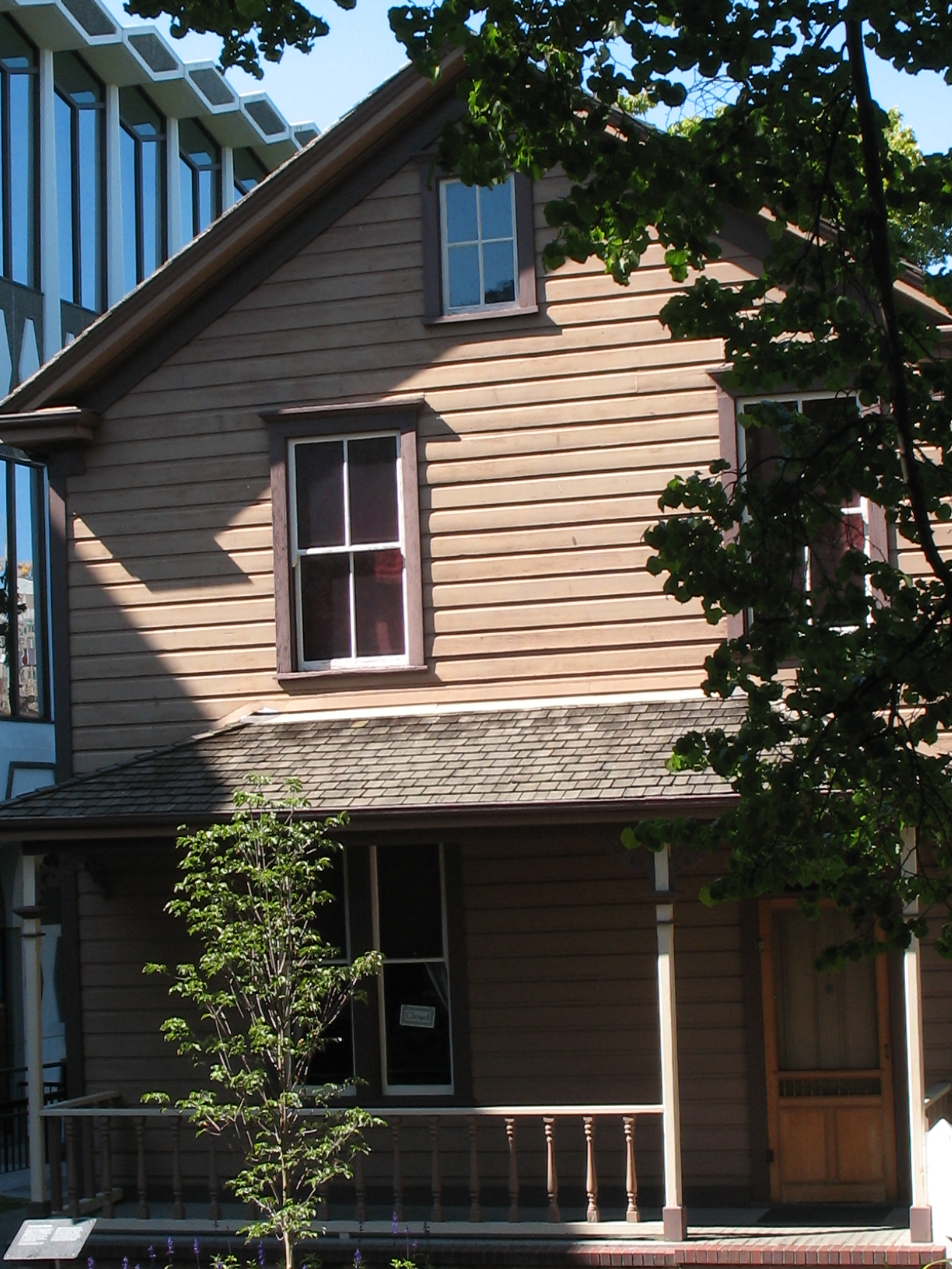 Home of the Helmcken family, built in 1852, oldest building of Victoria, British Columbia